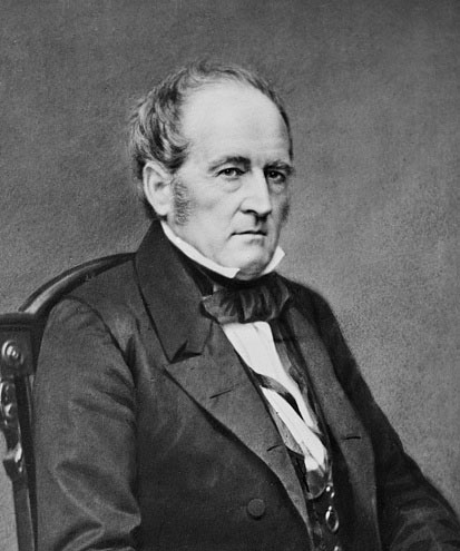 American politician John Bell (1797–1869). This is a retouched picture, which means that it has been digitally altered from its original version. Modifications: Scratches removed. The original can be viewed here: John-bell-brady-handy-cropped.jpg. Modifications made by Will Be Continued.